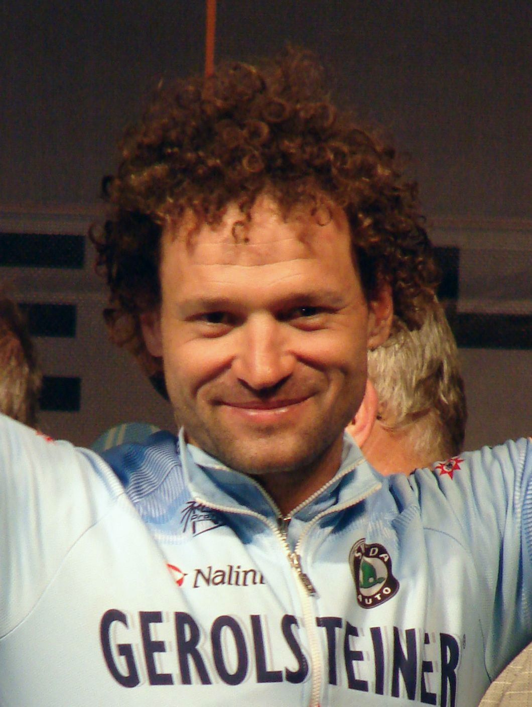 Austrian bicycle racer Peter Wrolich during the "Nightrace .07" in Waidhofen an der Ybbs on August 24, 2007.